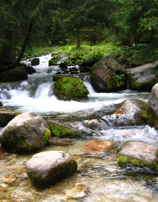 A rocky stream, Tatra Mountains, Poland